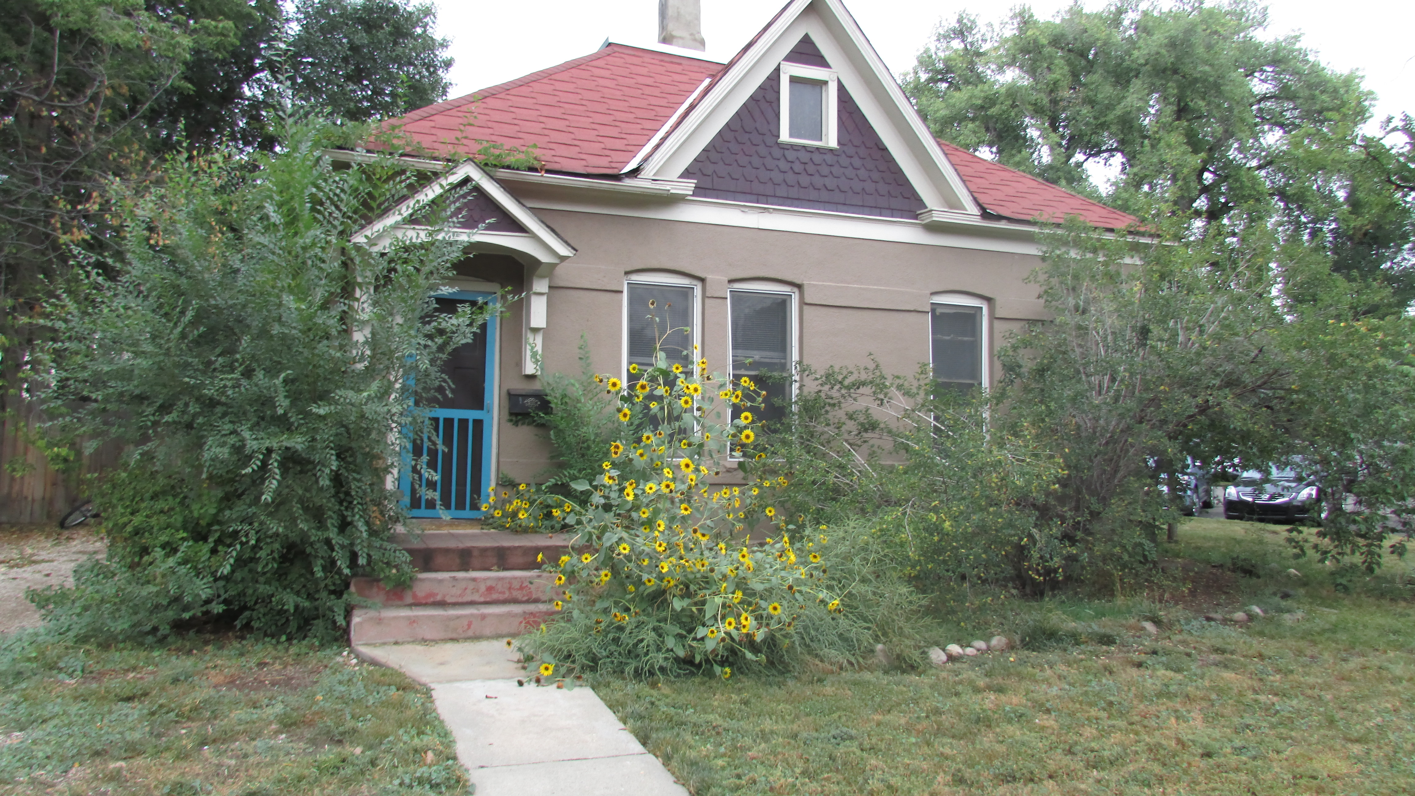 W.E. Hennington House, c. 1897 home in the Laurel School Historic District